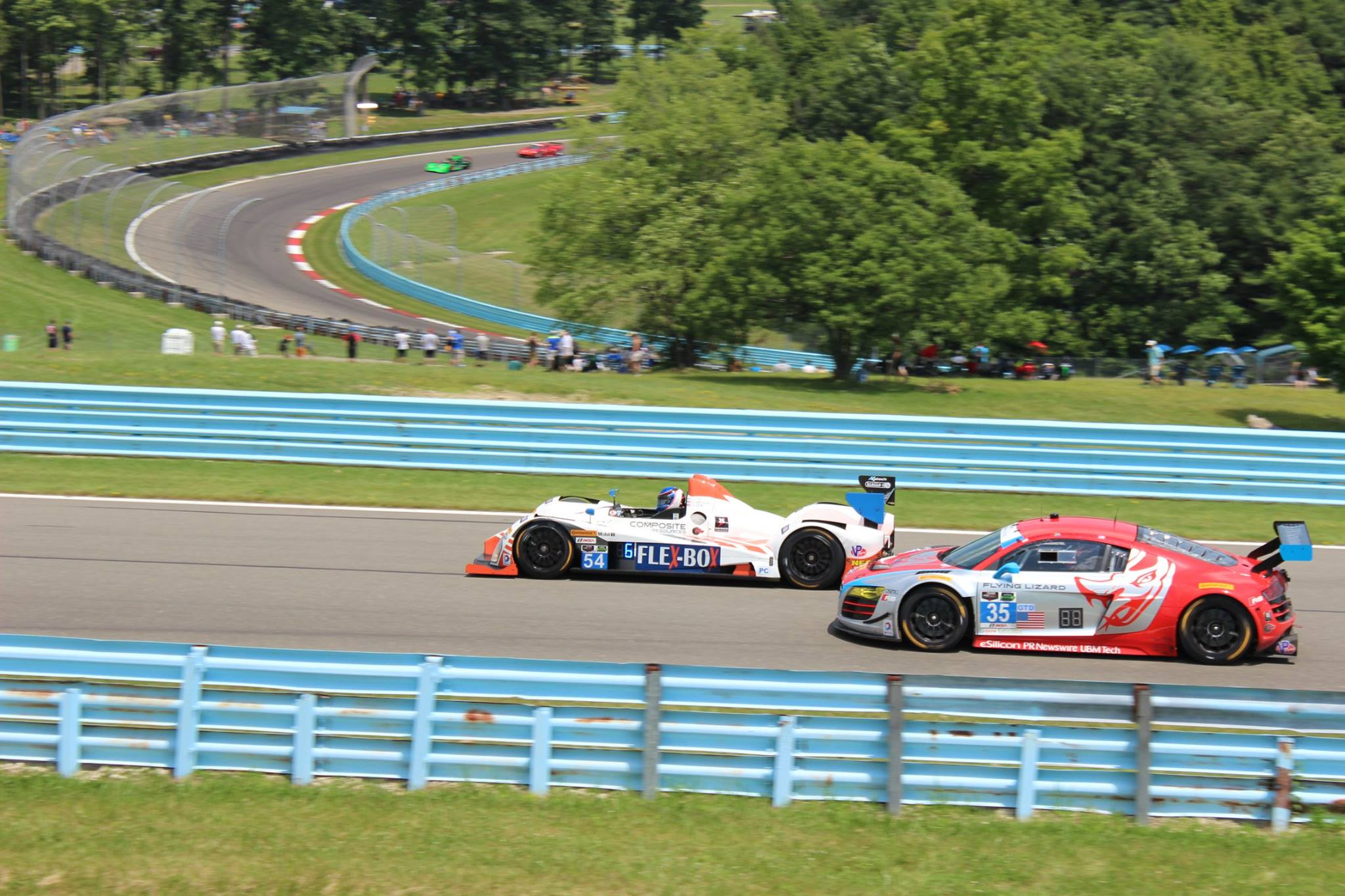 2014 Sahlen's Six Hours of The Glen at Watkins Glen International